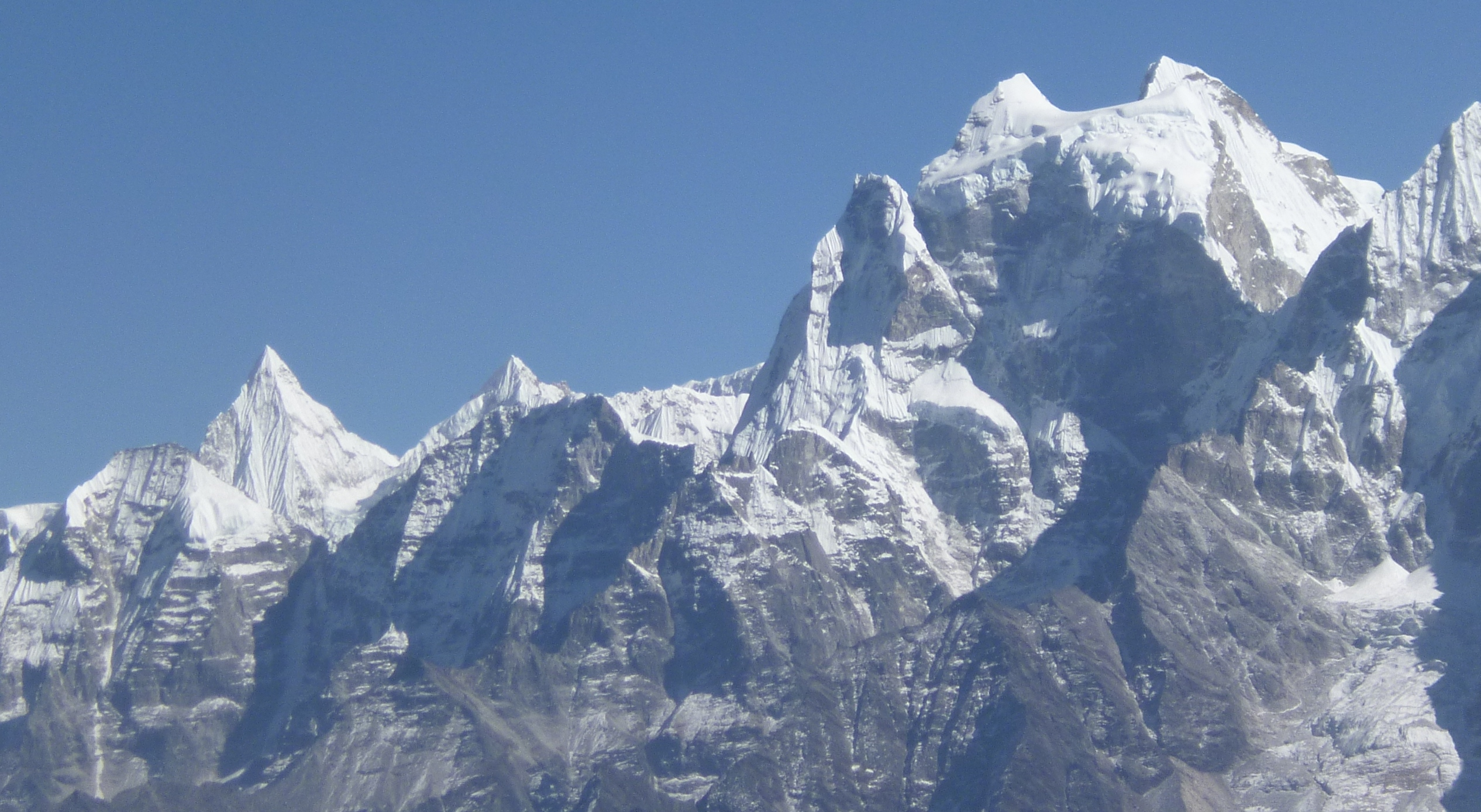 Malanphulan: pyramid left, Kangtega right